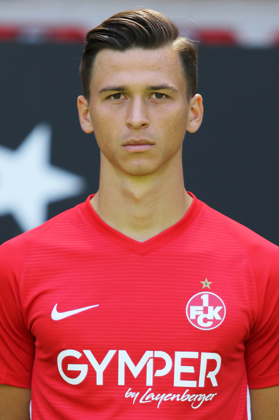 Theo Bergmann (Nr. 16)